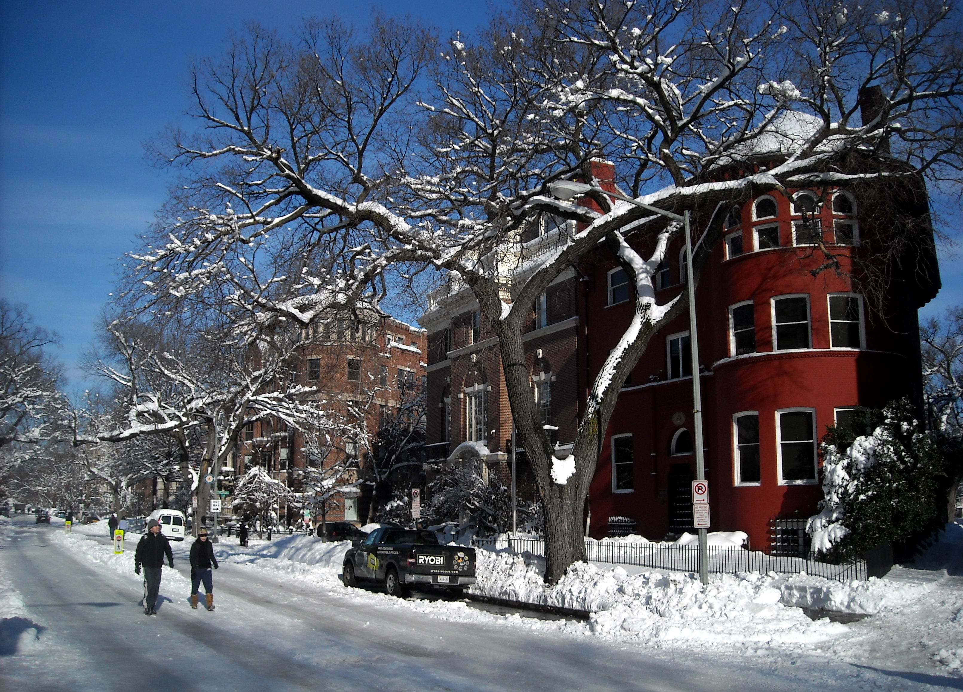 The 1600 block of New Hampshire Avenue, N.W., in the Dupont Circle neighborhood of Washington, D.C., following the North American blizzard of 2010. The Namibian embassy (right) and the German Historical Institute (center) are visible in the background.